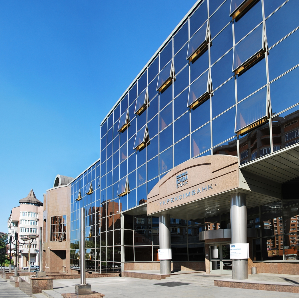 Ukreximbank Headquerters, Kiev, Ukraine